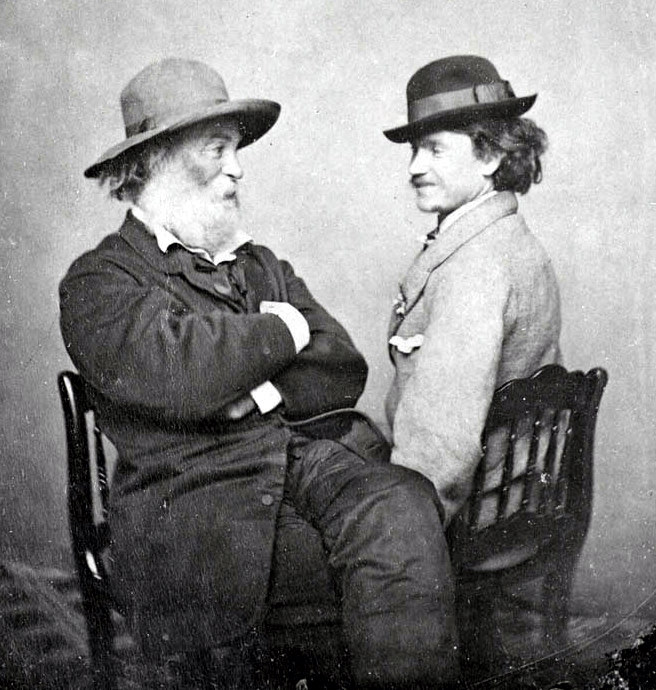 Walt Whitman and Peter Doyle, circa 1869